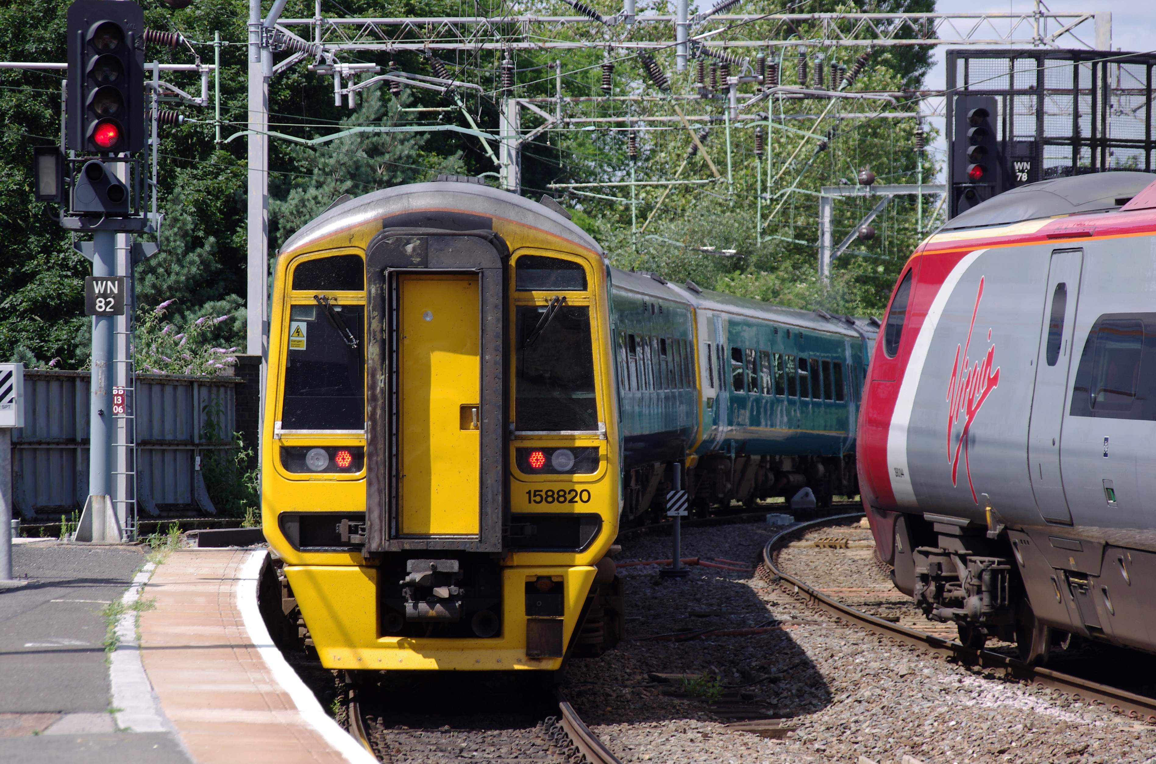 Virgin West Coast class 390 "Pendolino" EMU 390044 stands at Wolverhampton with a service to London Euston, while Arriva Trains Wales class 158 "Express Sprinter" DMUs 158820 and 158829 depart for Holyhead.